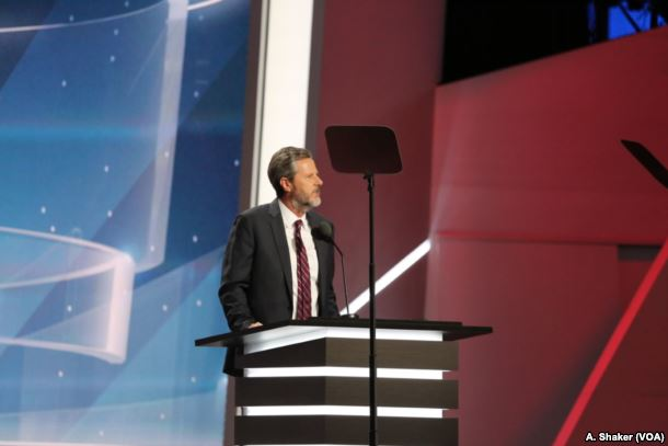 Jerry Falwell Jr. speaks on day 3 of the 2016 RNC